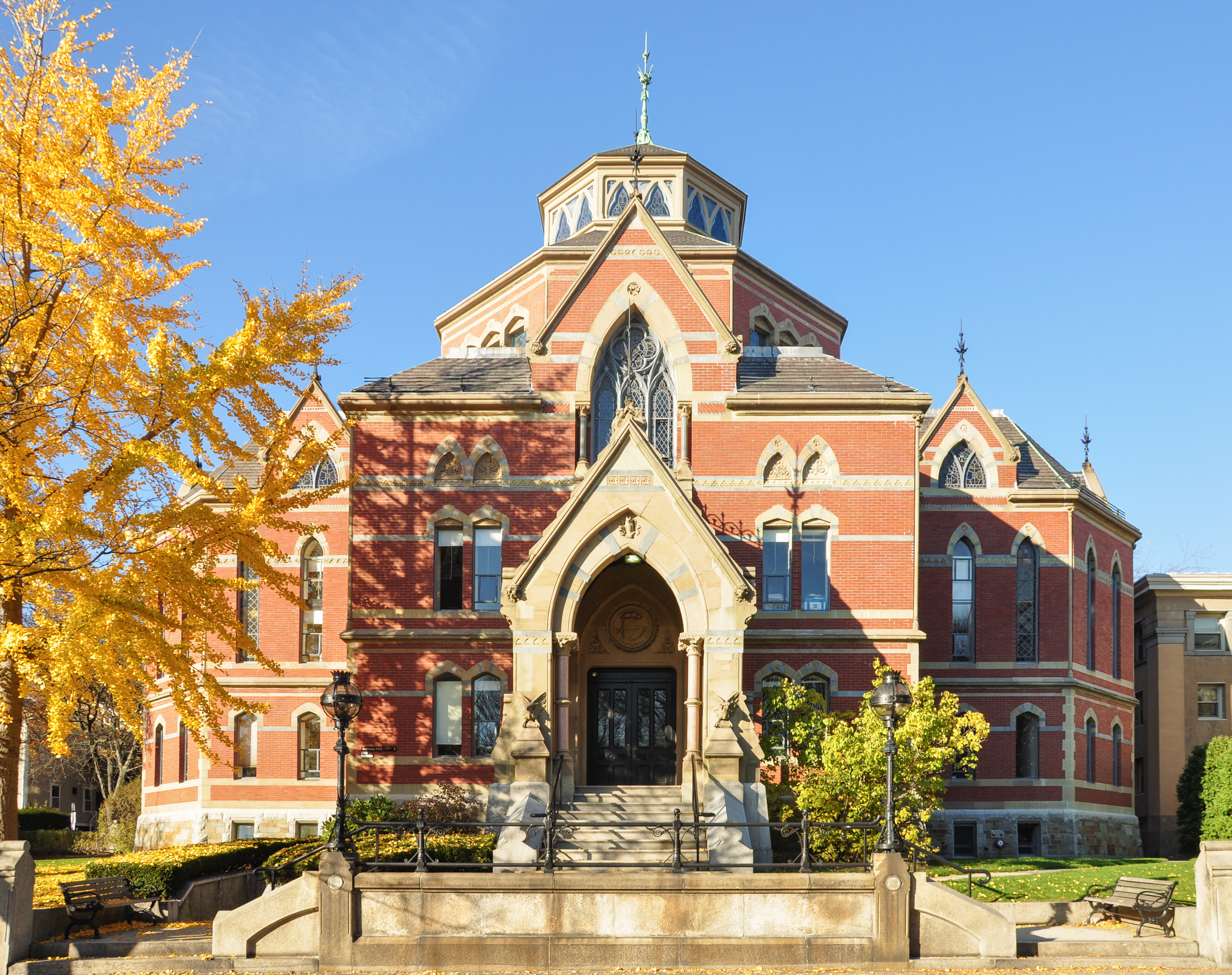 Cropped and straightened version of File:Brown university robinson hall 2009a.JPG Robinson Hall at Brown University in Providence RI